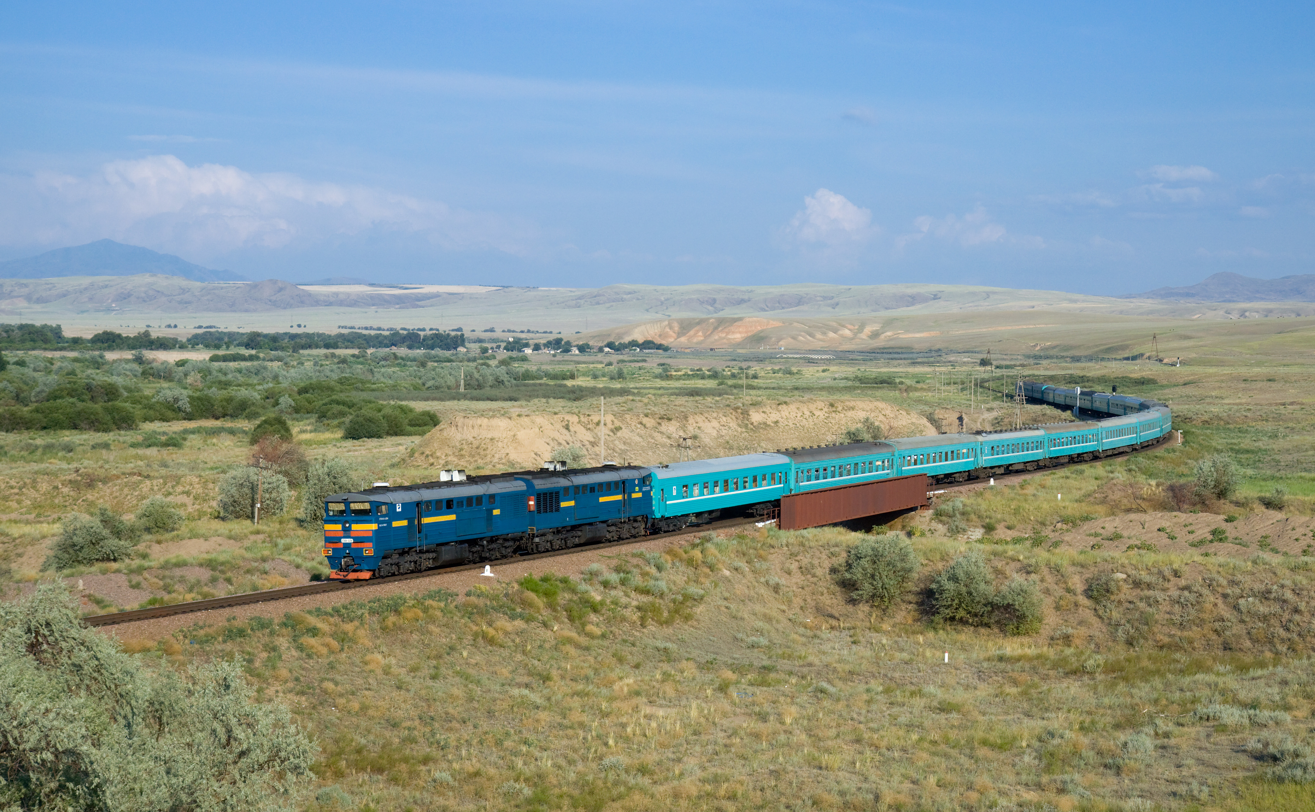 Train 22 Kyzylorda - Semipalatinsk, hauled by a Kazakhstan Temir Zholy 2TE10U diesel locomotive. Picture taken near Aynabulak, Kazakhstan.